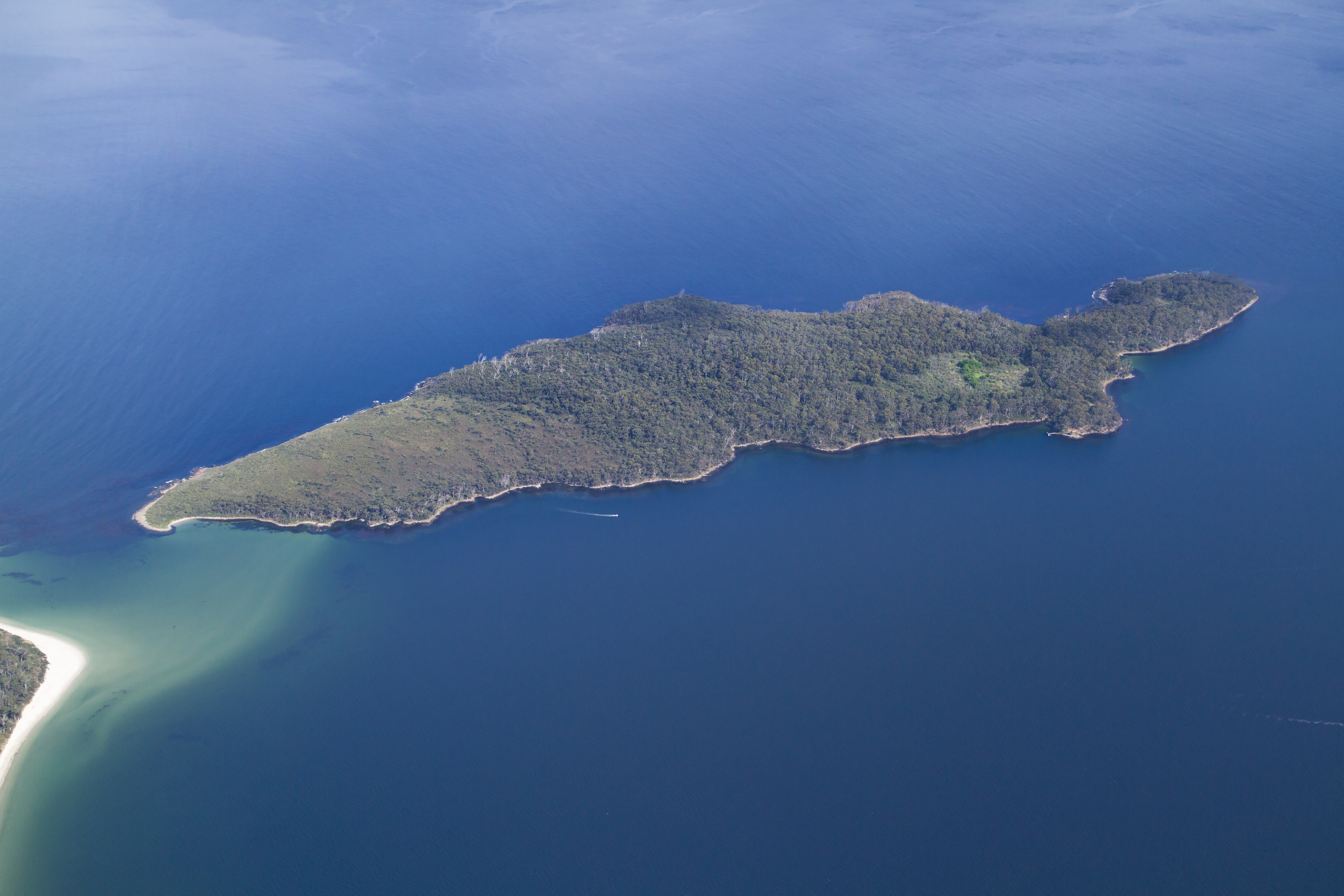 Partridge Island near Bruny Island, Tasmania, Australia